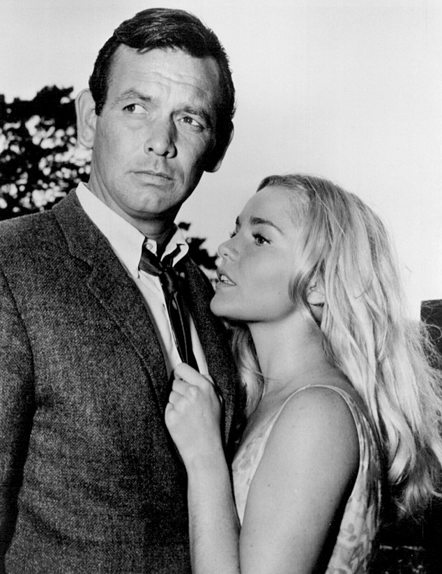 Photo of David Janssen and Tuesday Weld from The Fugitive.